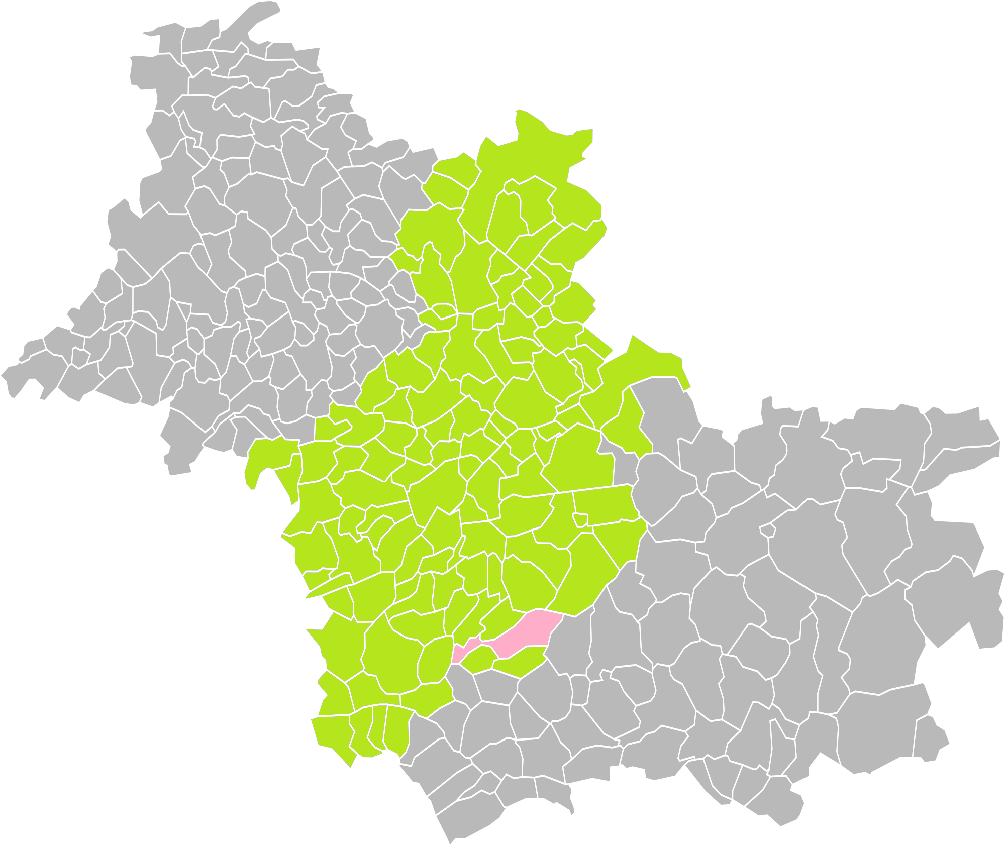 Location of the commune of Contres in the arrondissement of Blois (Loir-et-Cher)